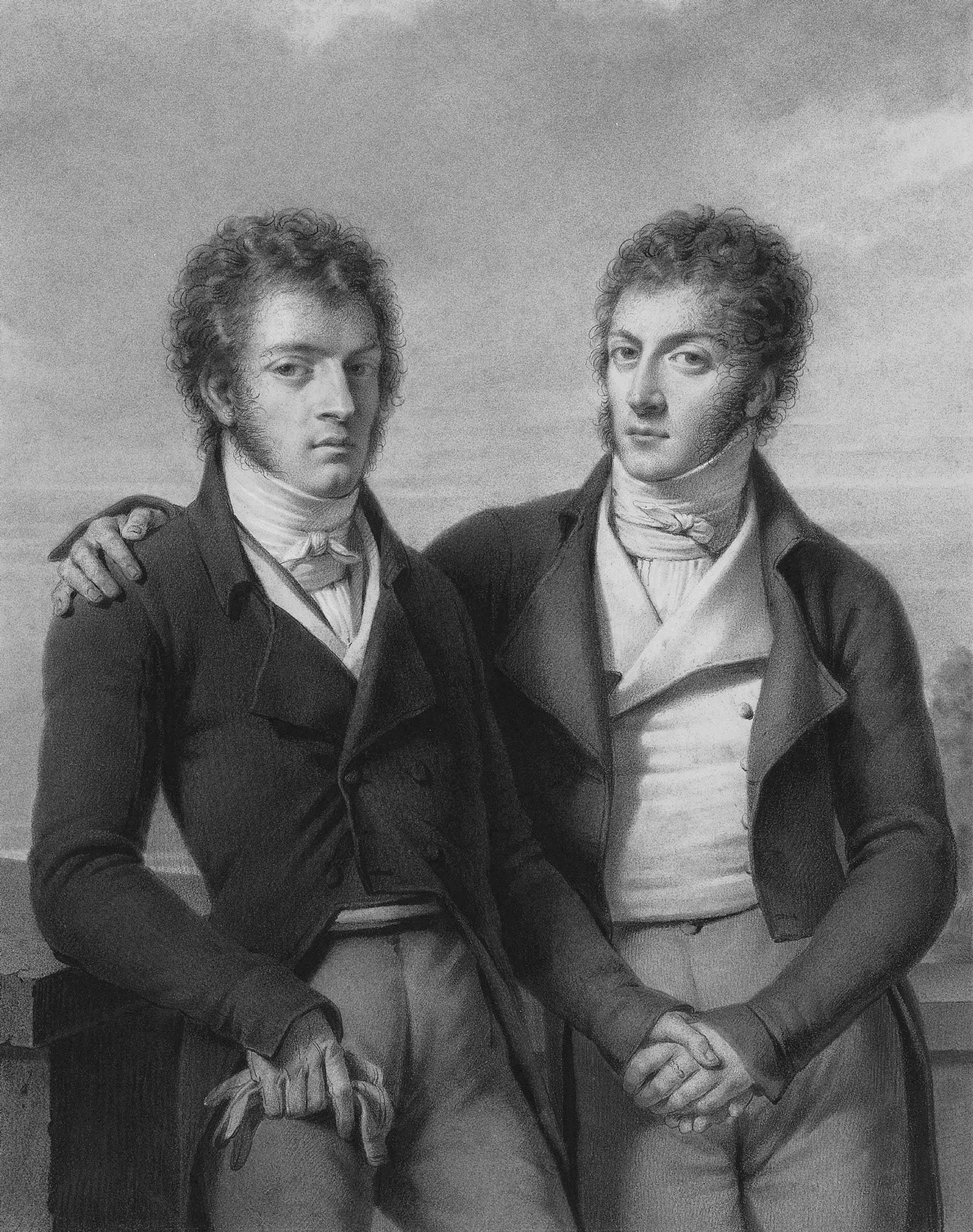 César and Constantin Faucher (1760-1815) charcoal and stumping, white chalk 45.7 x 37.5 cm